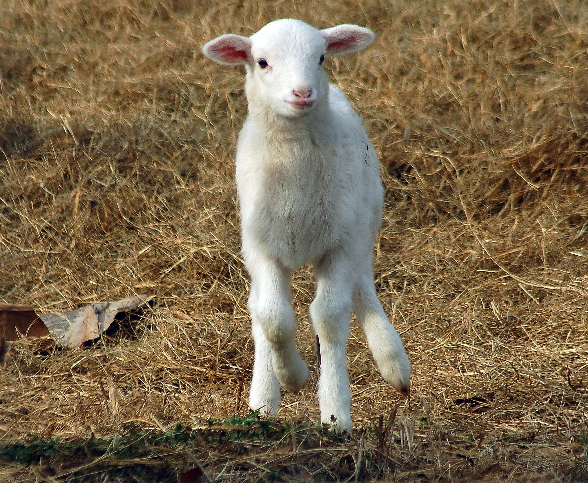 A St. Croix lamb in South Carolina.